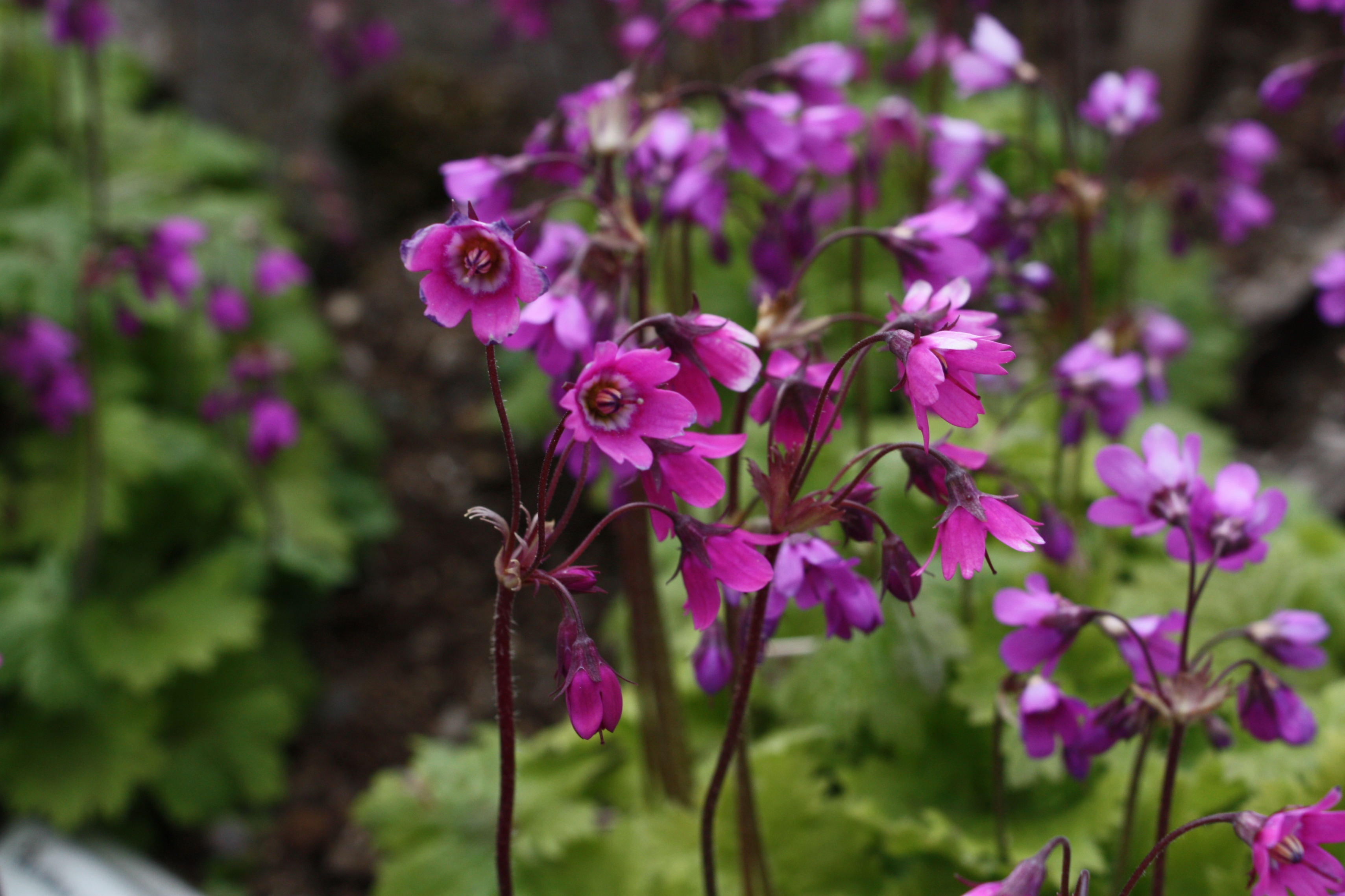 Cortusa caucasica in the Reykjavik Botanic Garden